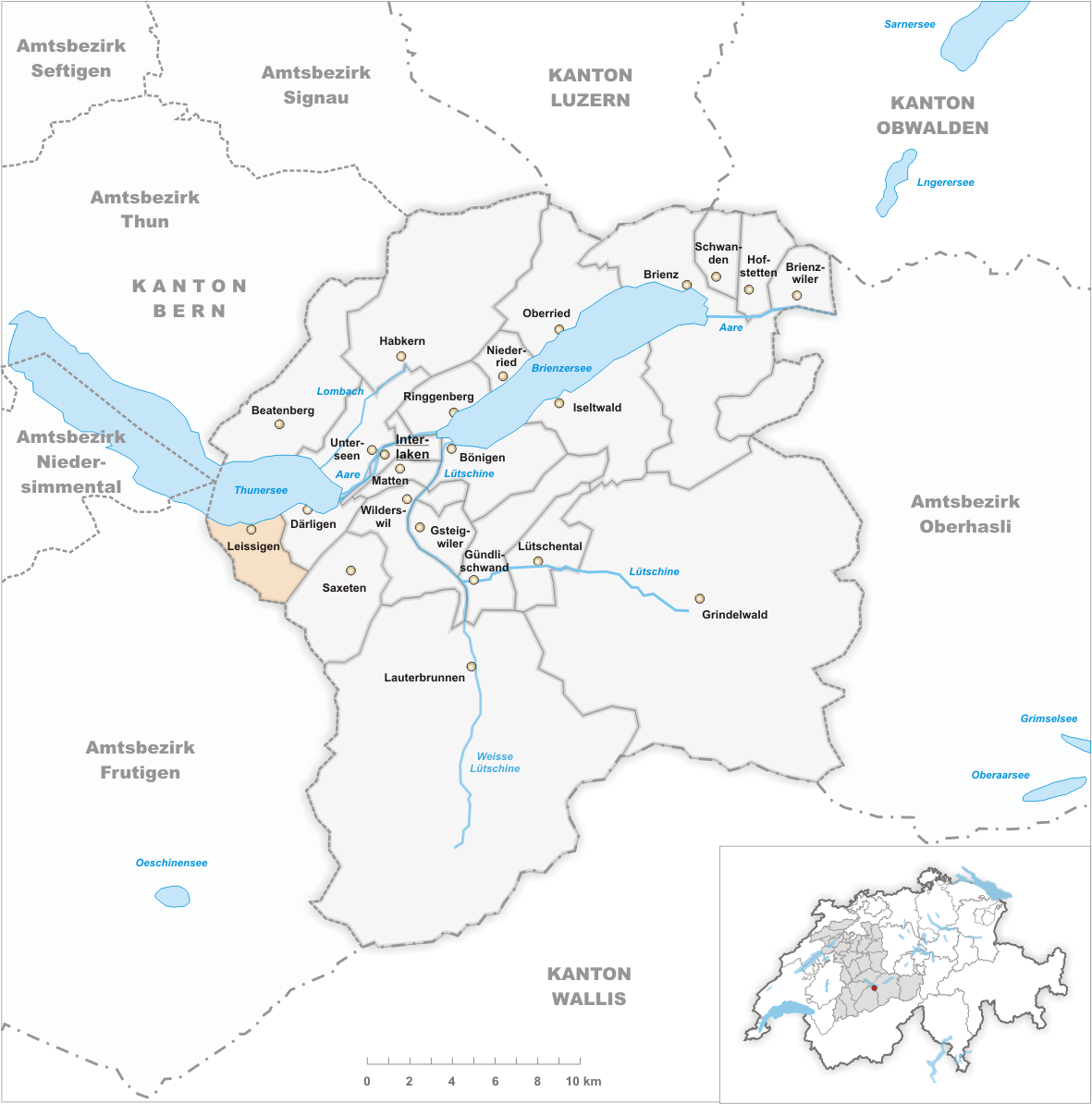 Municipality Leissigen